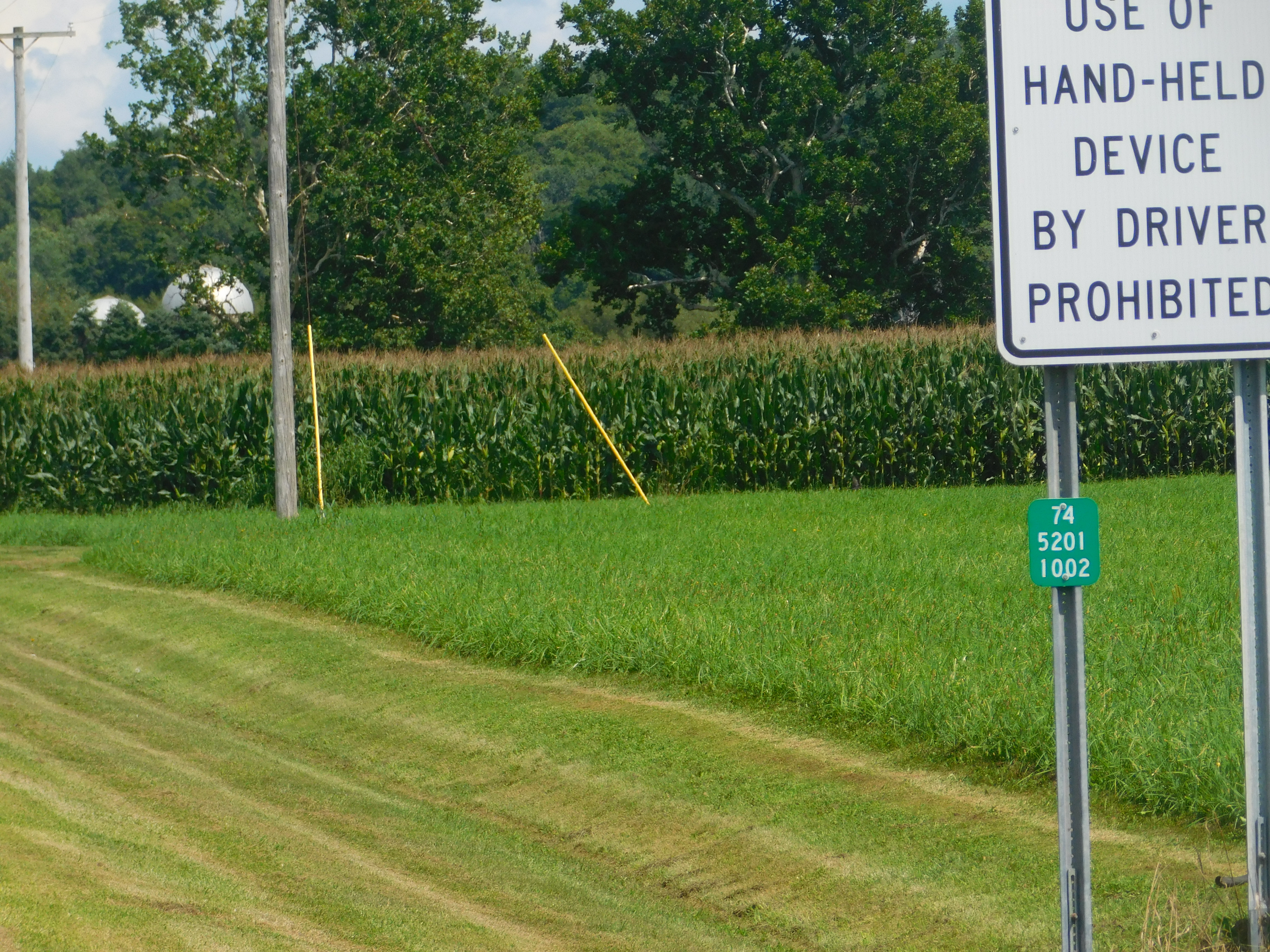 Reference markers for NY 474, marked as NY 74.